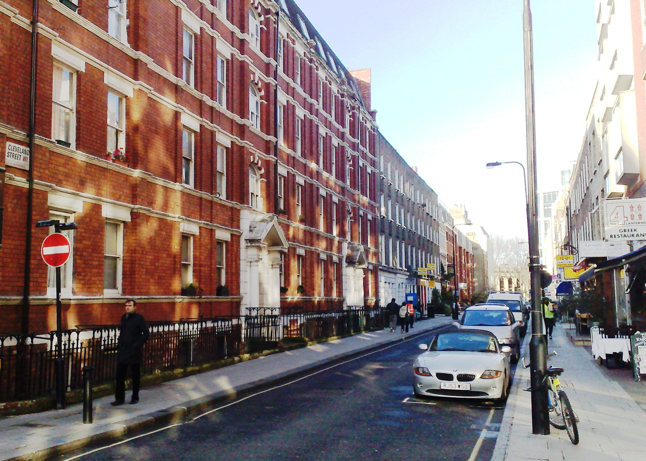 View north of Cleveland Street Conservation Area houses in Westminster London